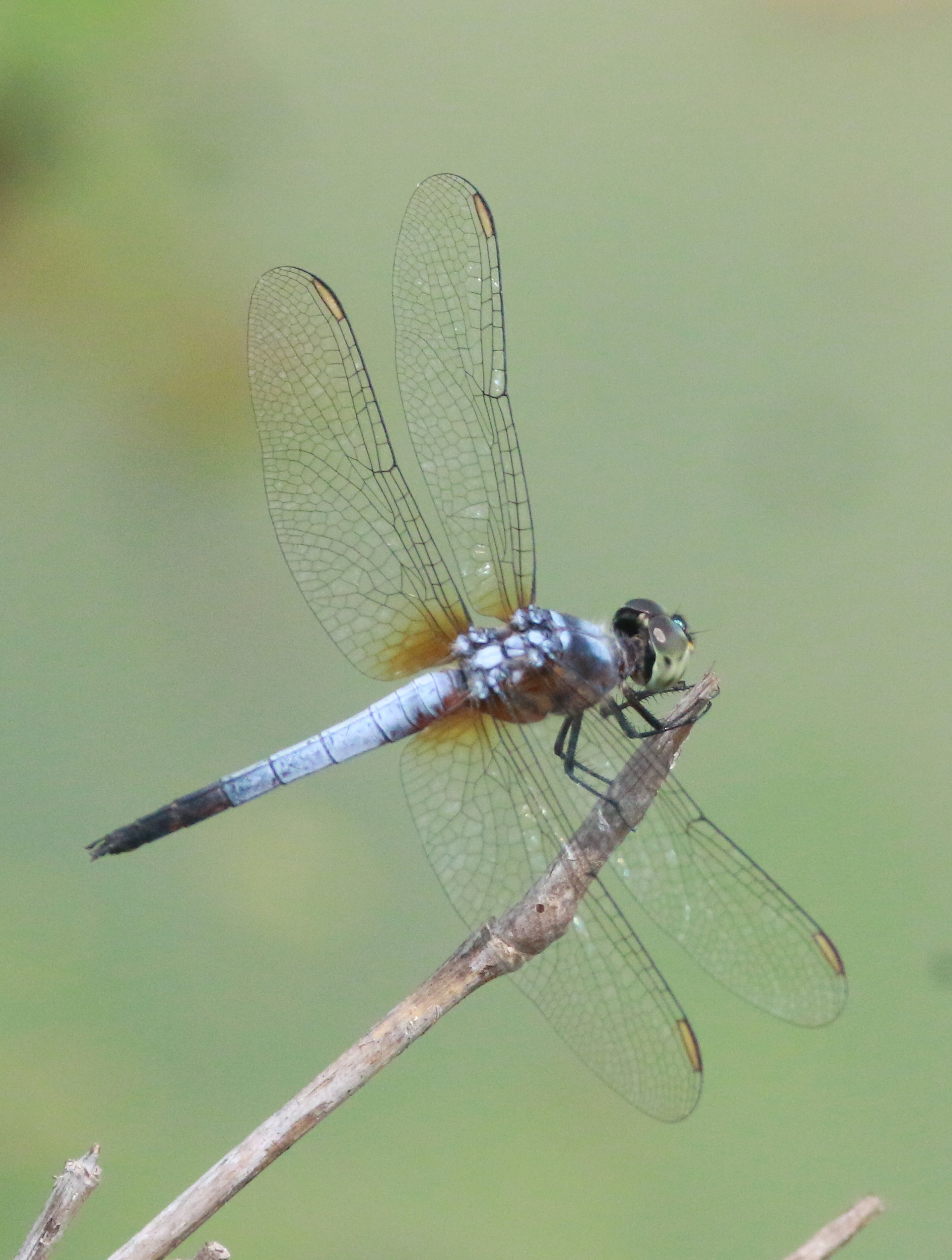 Rufous backed marsh Hawk ,Brachydiplax chalybea